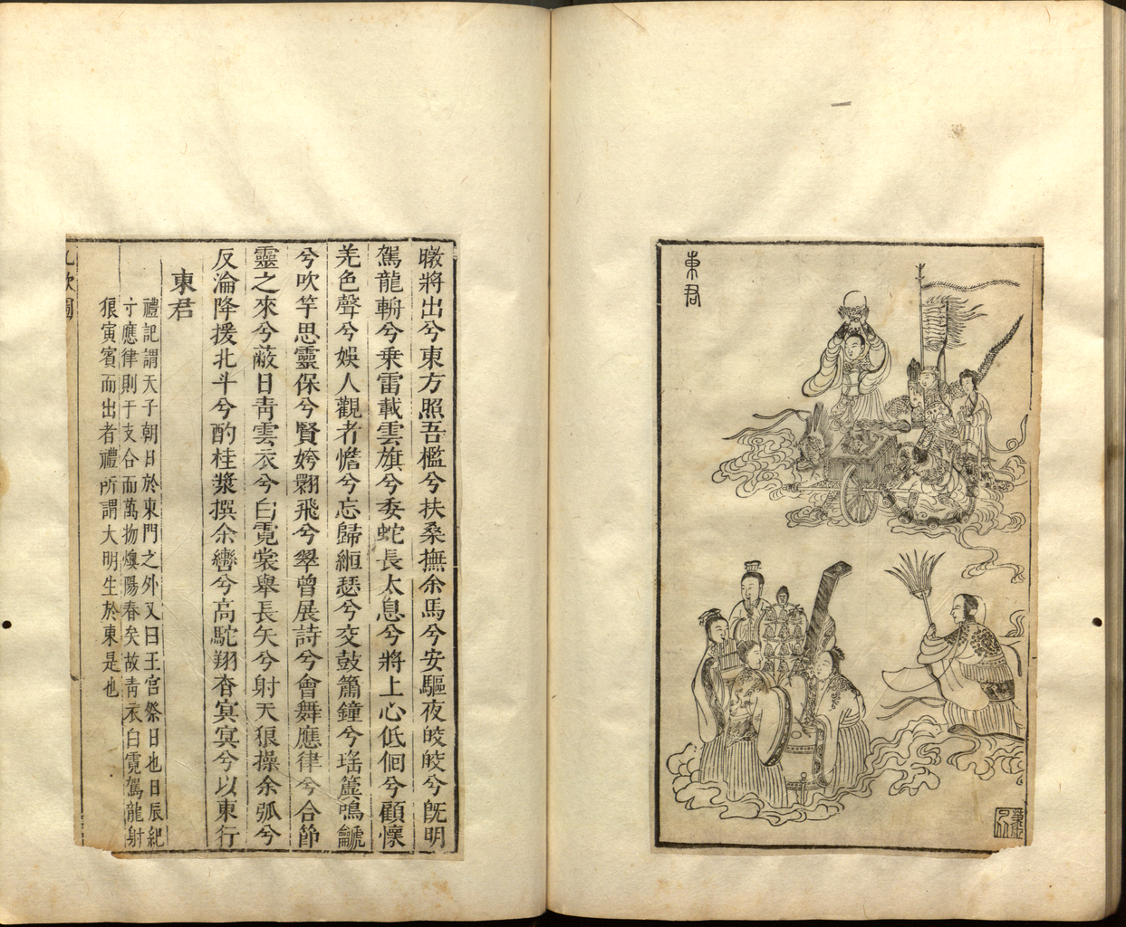 "This work is from an illustrated edition of a Qing dynasty version of the Chuci poetry anthology misleadingly entitled Illustrated Li Sao. Together with text from the poem "Lord of the East" from the "Nine Songs" {Jiu Ge) section, it shows a picture of Dong Jun, the Lord of the East, and attendants. The poetry anthology Chu Ci, was compiled during the Han dynasty from Han and pre-Han works. This, much later, version was illustrated by Xiao Yuncong (1596-1673), a famed early Qing painter, and was engraved by Tang Yongxian. According to Wang Zhongmin in A descriptive catalog of rare Chinese books in the Library of Congress (Washington, DC: Library of Congress, 1957) Pan Zuyin (1830-90), a late Qing man of letters and linguist and Qing official, reissued the work and rebound it in four volumes, but retained the original title [s.c. "authorial attribution"], which reads: "By Xiao Yuncong of Quhu." This rebound edition has two original prefaces, one by Li Kai (not dated) and the other by Xiao Yuncong, the painter (dated 1645)."